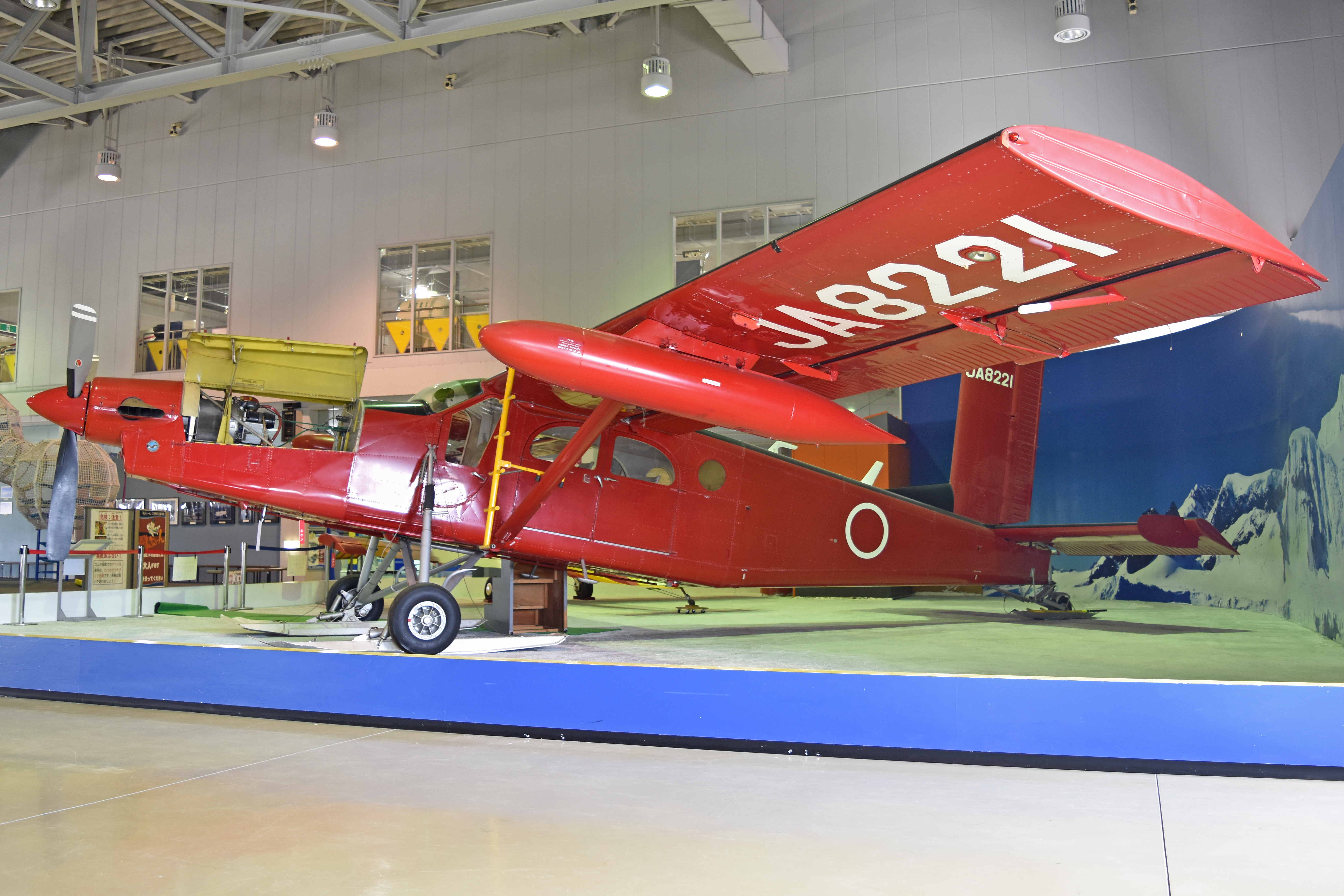 c/n 800 Built in 1978 and used by Japan Polar Research in Antarctica between 1979 and 1993. Now on display in the main building of the Ishikawa Aviation Plaza Komatsu Airport Ishikawa Prefecture, Japan 14th March 2019